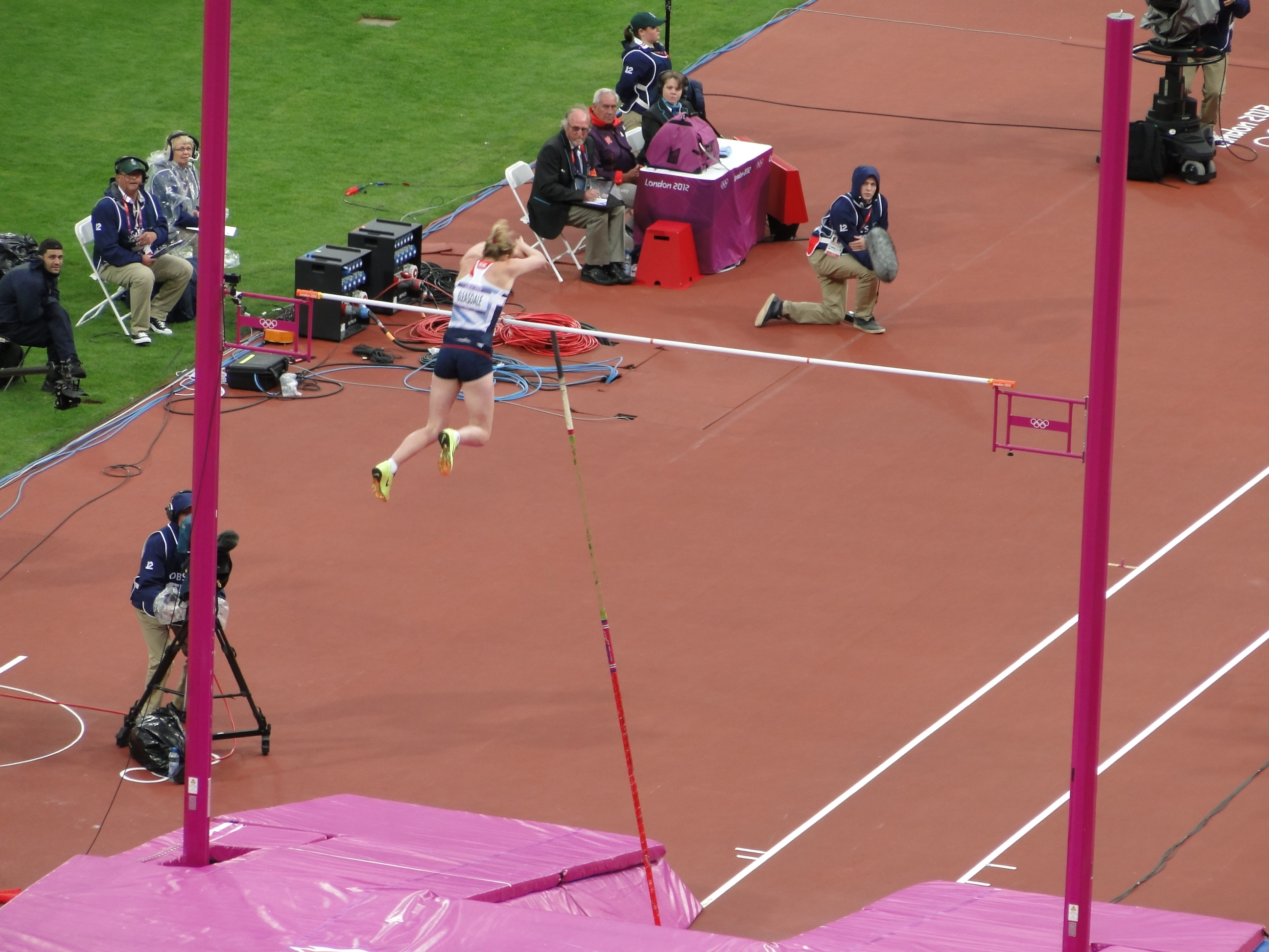 Holly Bleasdale in the pole-vault event at the 2012 London Olympics